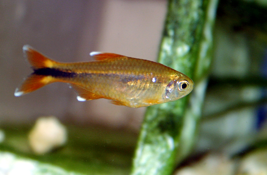 Cupper tetra (Hasemania nana)